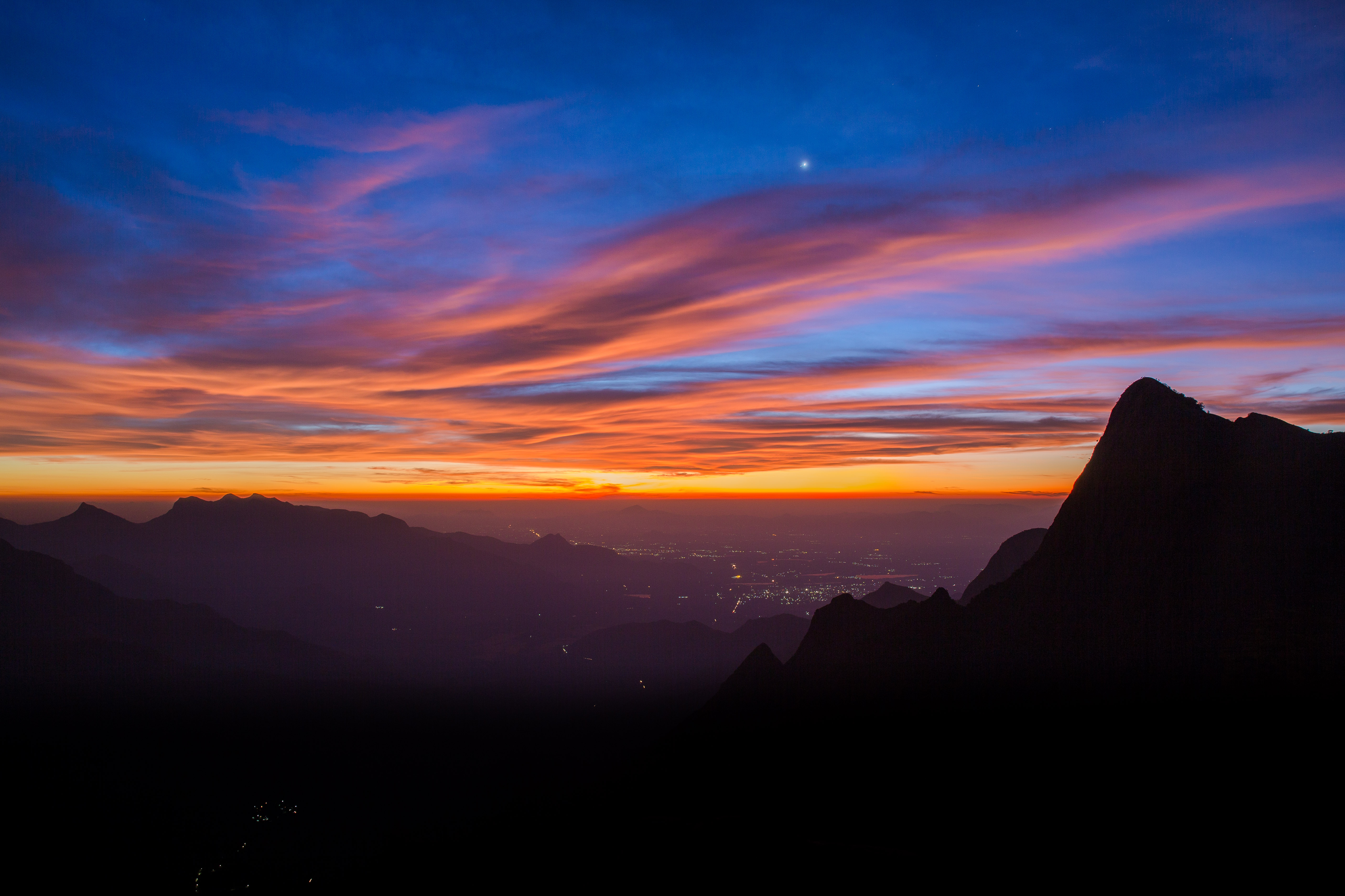 The most spectacular sunrise I have ever come across as the night slowly crawls into a colorful and ever changing sea of clouds with the sun gleaming its warmth over the Theni Valley.